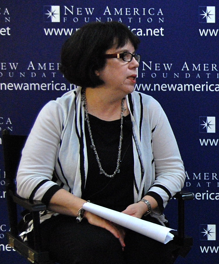 Journalist Deborah Blum at a New America Foundation panel.